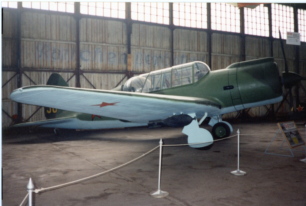 PictionID:42765492 - Title:Sukhoi Su-2 ADDITIONAL INFORMATION: Although 910 Su-2s were built by the time production was discontinued in 1942, the aircraft was obsolete and under armed by the start of thereat Patriotic War. In combat the Su-2 ground attack aircraft squadrons suffered heavy losses against the Germans, with some 222 aircraft destroyed. From 1942, the Su-2 was withdrawn from the front line and replaced bylyushin Il-2,etlyakov Pe-2ndupolev Tu-2ombers. The Su-2 was relegated to a training and reconnaissance role. However, due to a critical shortage of aircraft in earlyorld War II, some Su-2 were used asmergency fighters. - Catalog:15_003522 - Filename:15_003522.tif - ---- Image from the Charles Daniels Photo Collection album "Monino Indoors '93" which includes images taken by Mr. Daniels when he visited the Monino Museum in 1993.----PLEASE TAG this image with any information you know about it, so that we can permanently store this data with the original image file in our Digital Asset Management System.------------SOURCE INSTITUTION: San Diego Air and Space Museum Archive